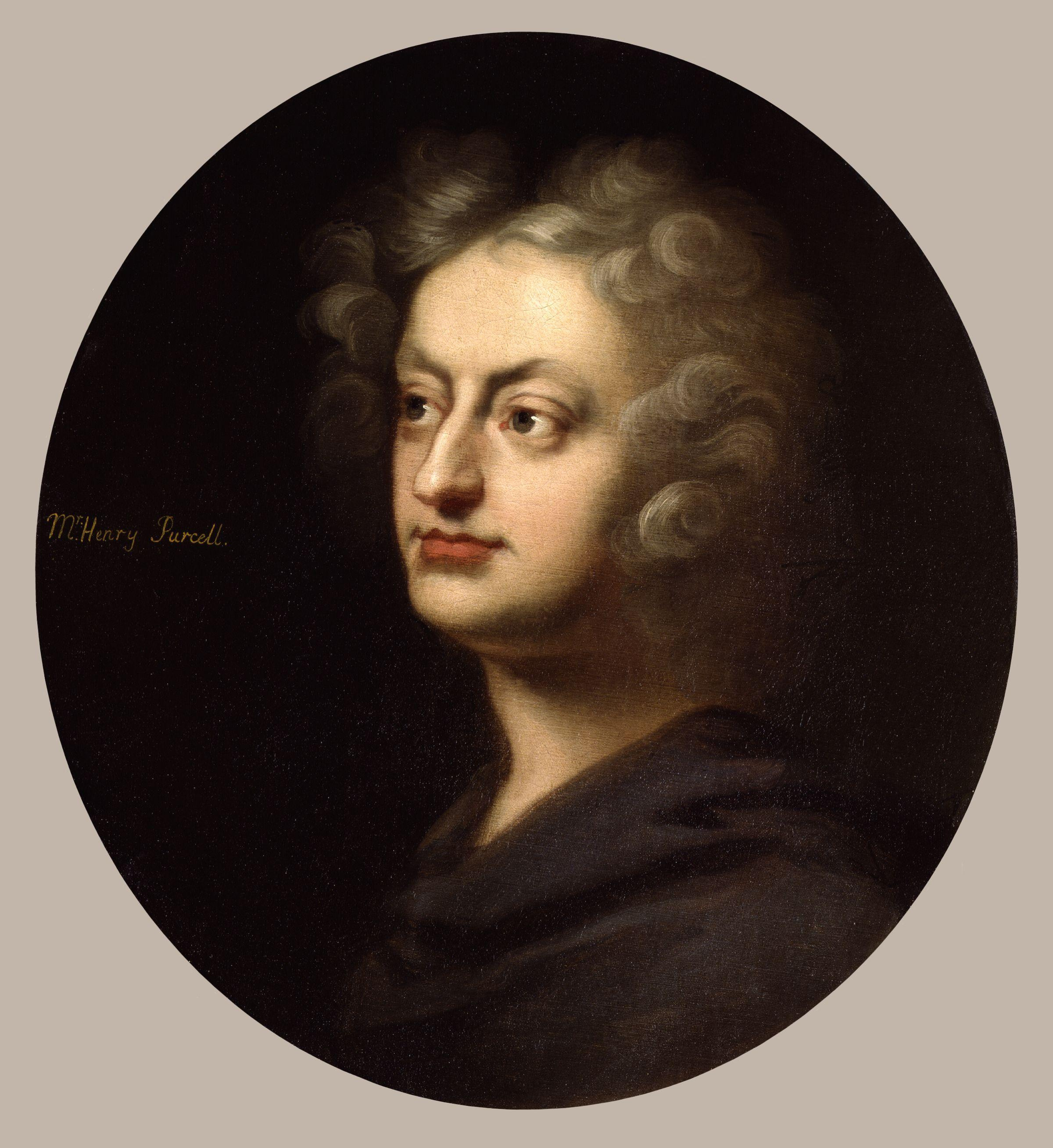 Henry Purcell, by John Closterman (died 1711). All images in this batch have been confirmed as author died before 1939 according to the official death date listed by the NPG.